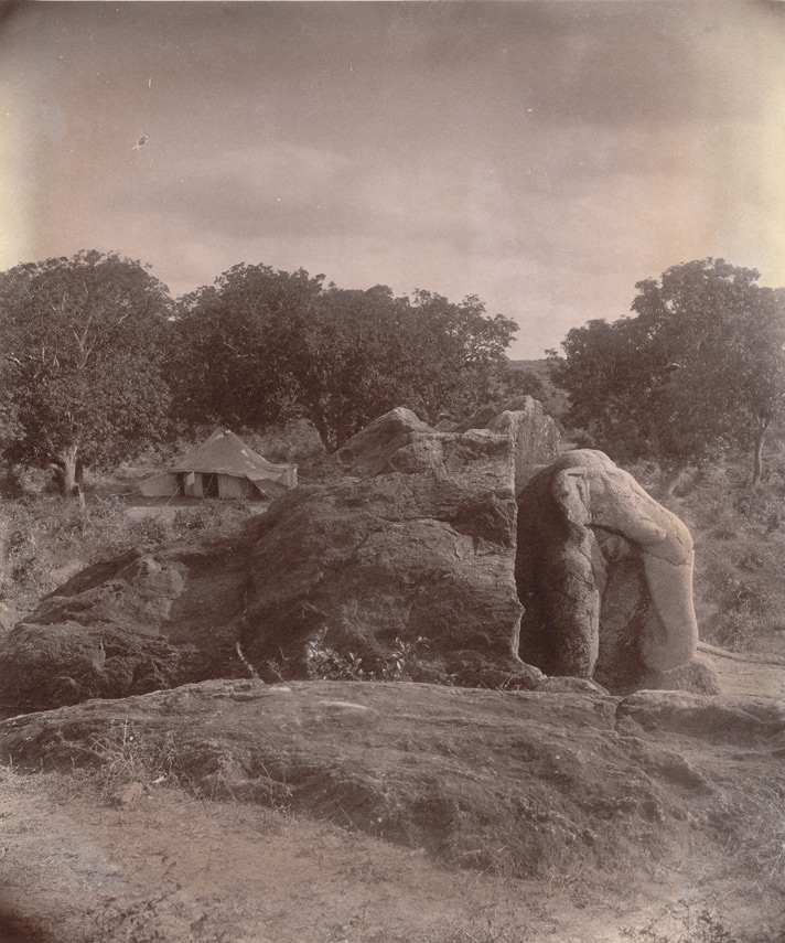 Ashokan edict in Dhauli